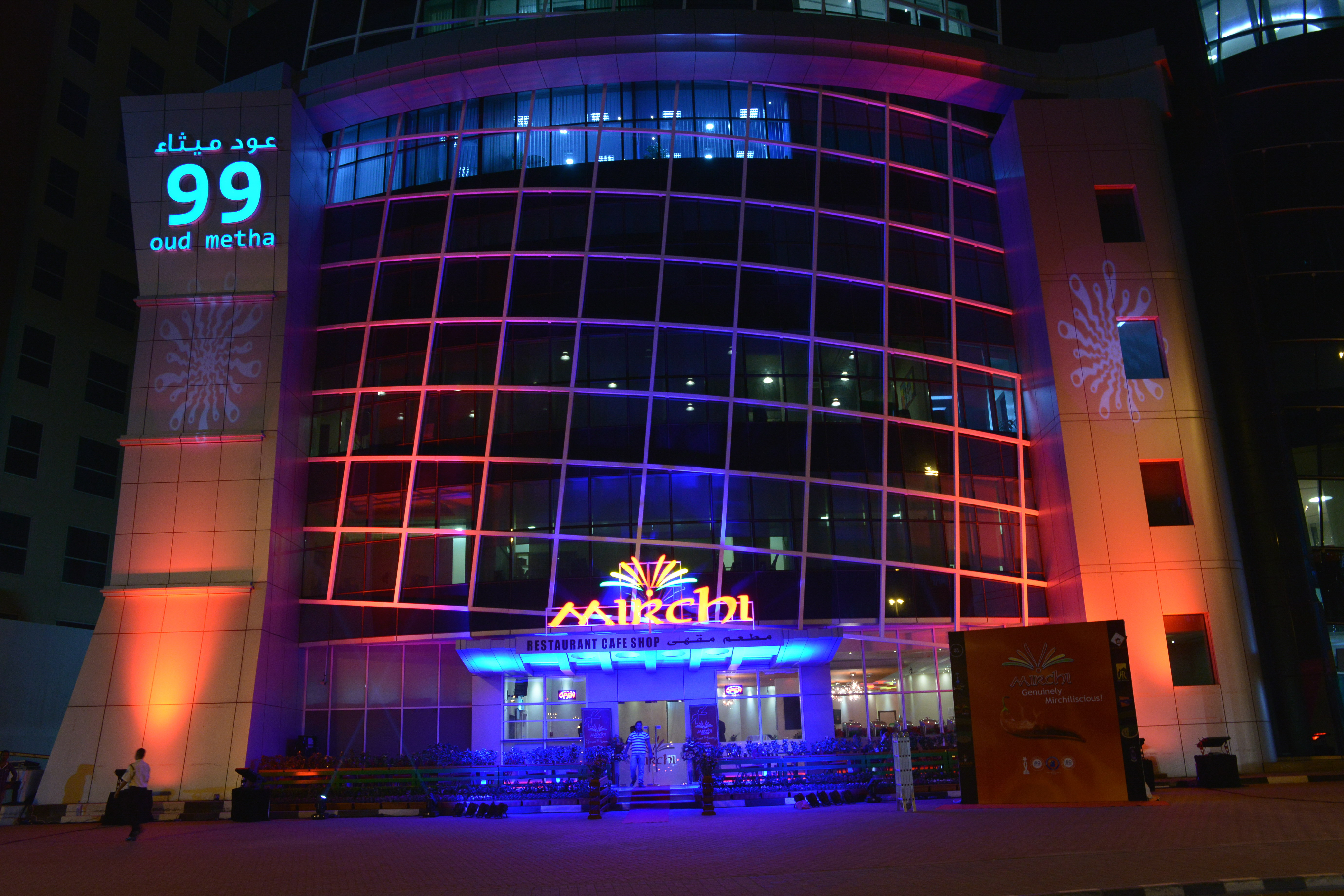 Mirchi Oud Metha Branch